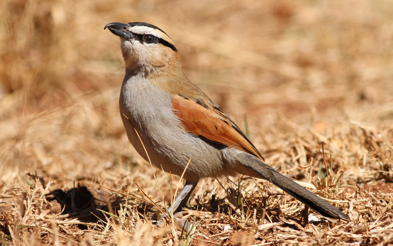 Black-crowned Tchagra, Tchagra senegala at Rietvlei Nature Reserve, Gauteng, South Africa